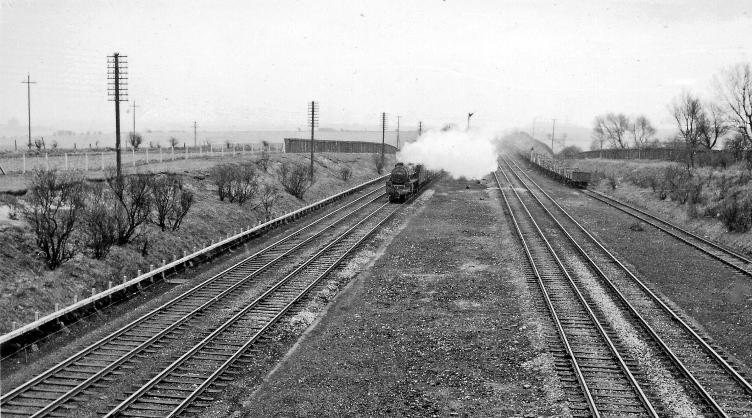 Bamfurlong station - remains, WCML. View southward from the A58 bridge, towards Warrington, Crewe etc.: West Coast Main Line. The station had been closed long ago on 27/11/50, but the large Bamfurlong Marshalling Sidings were still busy - behind the camera. A Down express is approaching, with a Stanier 5MT 4-6-0.